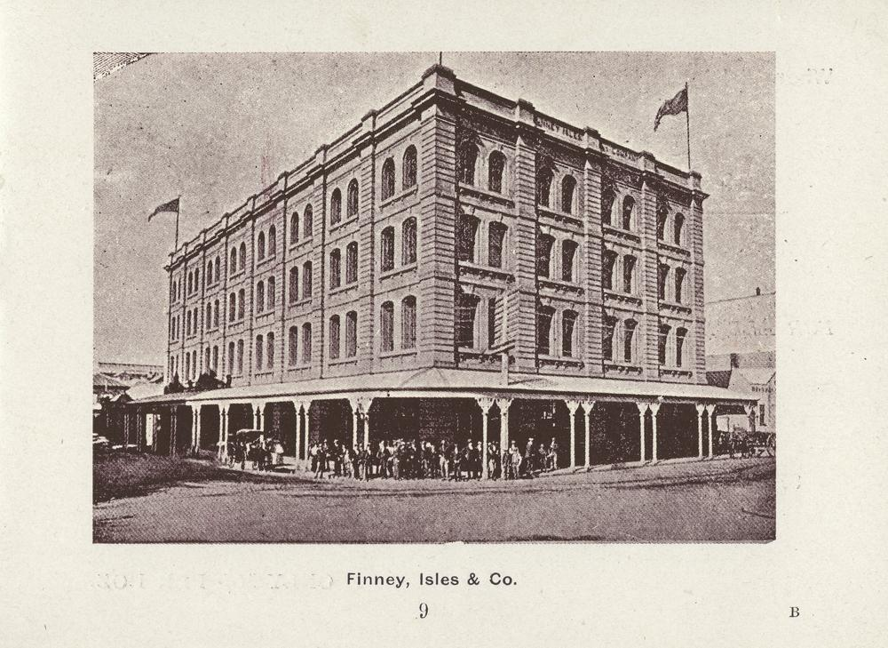 Finney, Isles & company building, Brisbane, 1902 Finney Isles was situated at the City Exchange, Brisbane and also at Maryborough. They sold soft furnishings, furniture and general merchandise. (Description supplied with photograph).